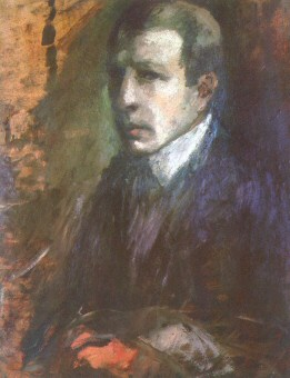 Alfréd Justitz (1879-1934), Czech painter: selfportrait